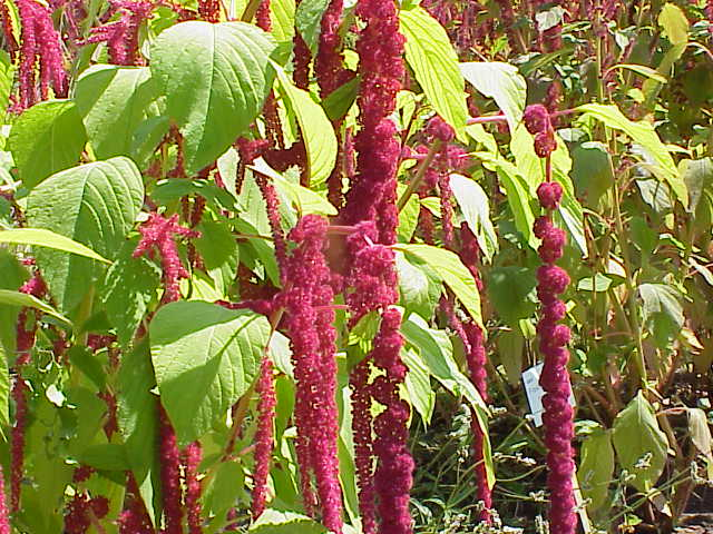 Species: Amaranthus tricolor Family: Amaranthaceae Image No. 2